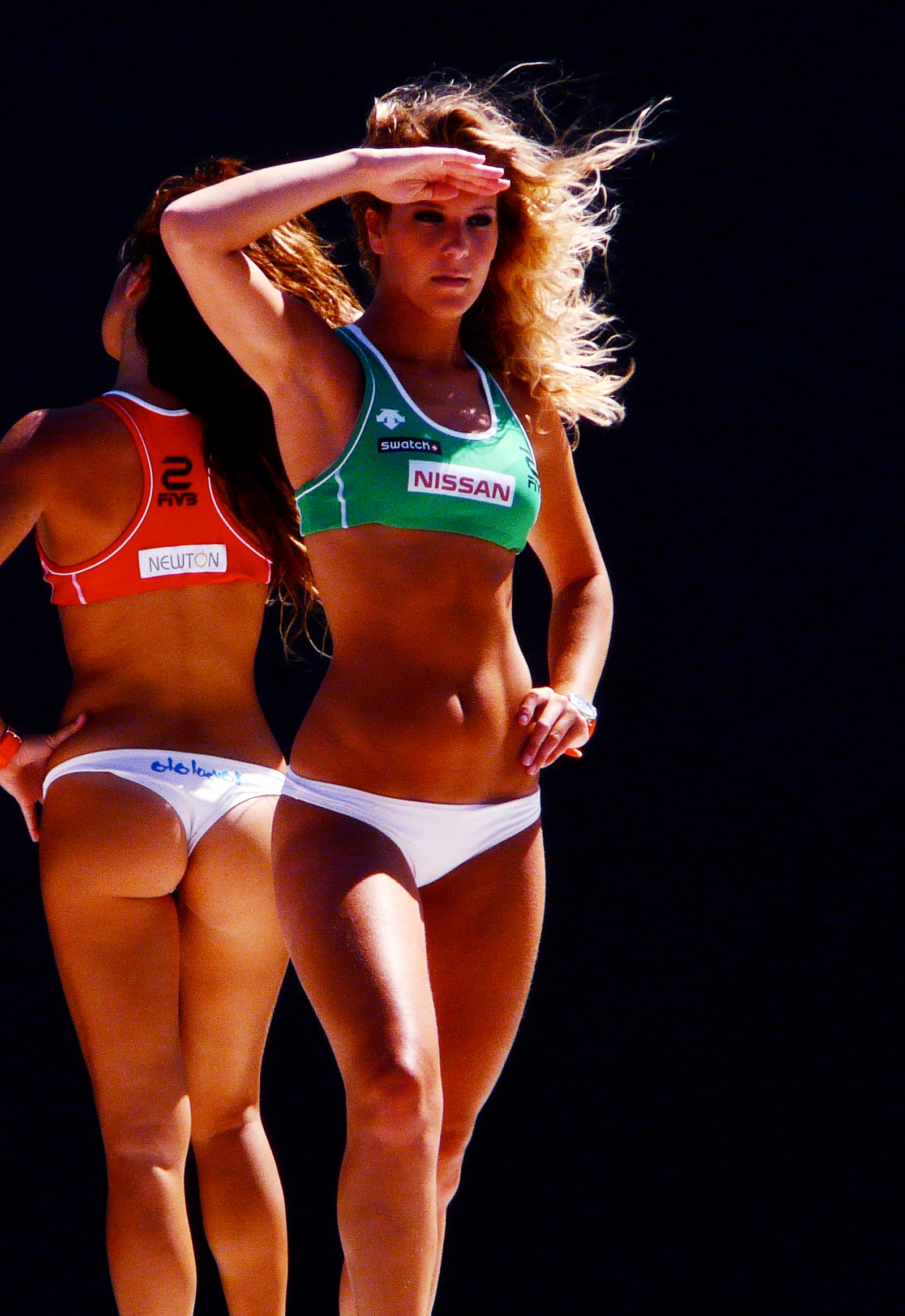 Brazilian models on the catwalk.